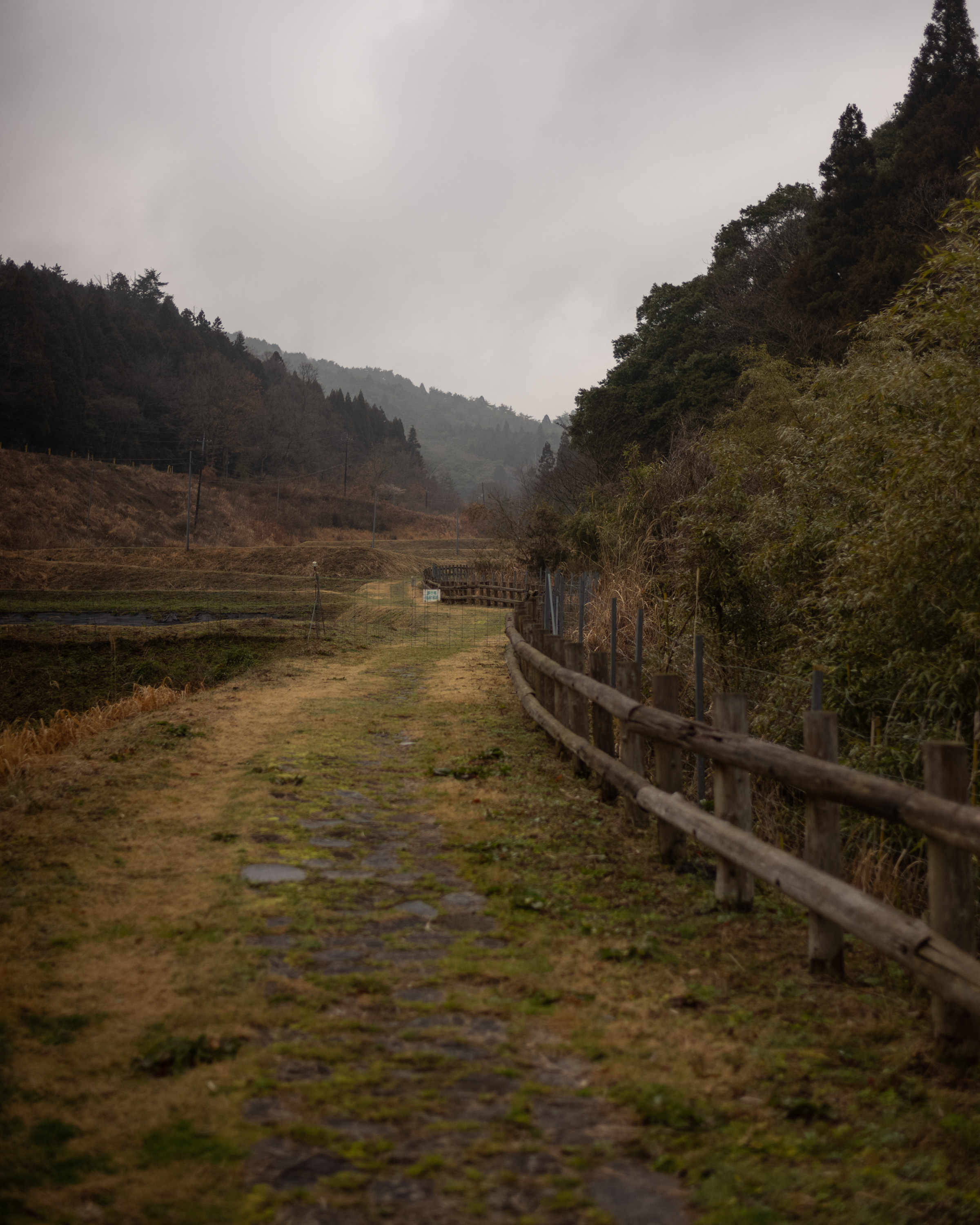 A field near Sasanami Village along the Hagi Ōkan